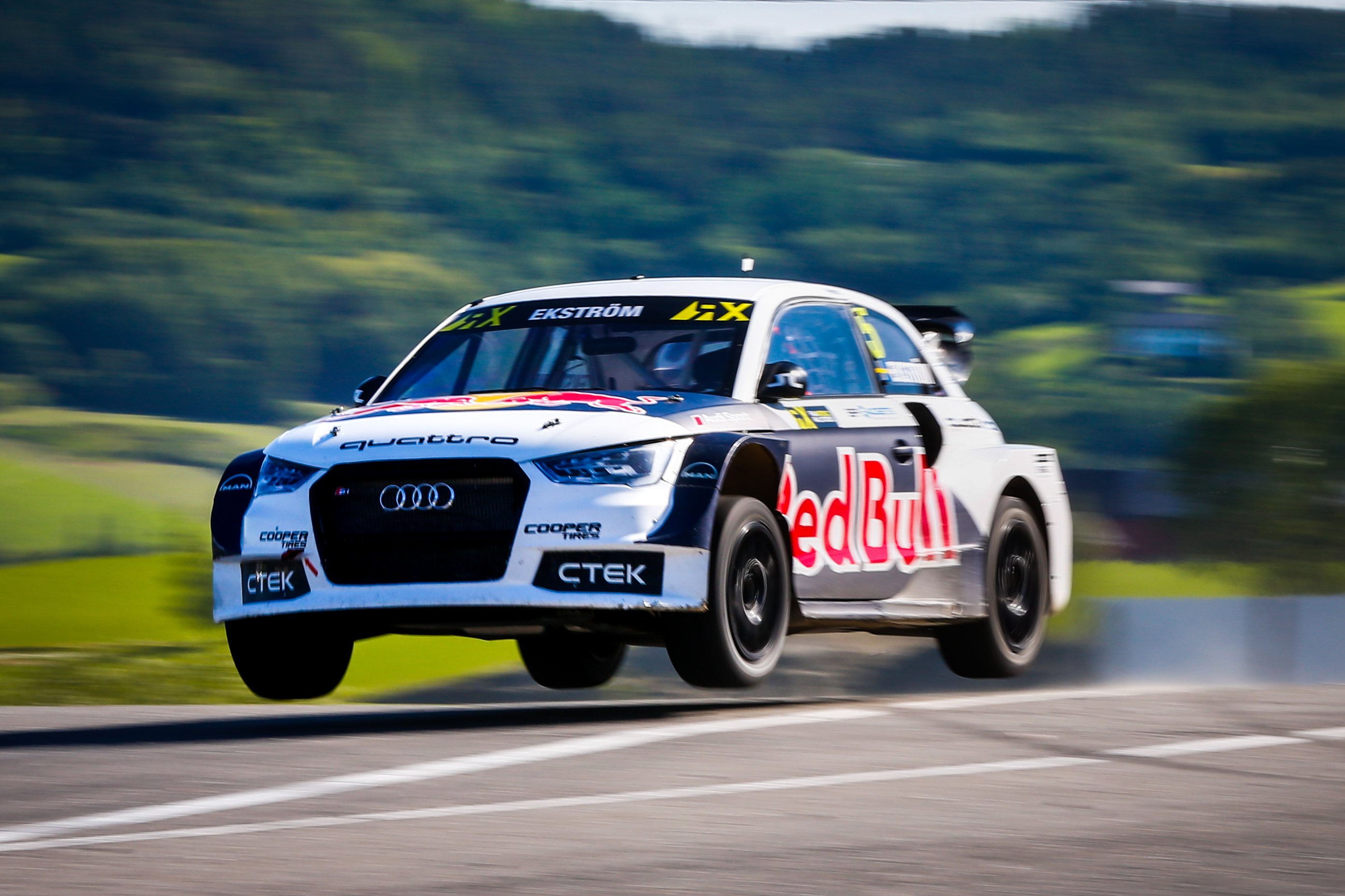 2016 FIA World Rallycross Championship / Round 05, Hell, Norway / June 10-12 2016 // Worldwide Copyright: Colin McMaster/EKS/McKlein